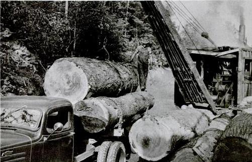 Skidder loading logs onto a truck in the Upper Tellico Valley in Monroe County, Tennessee, United States.